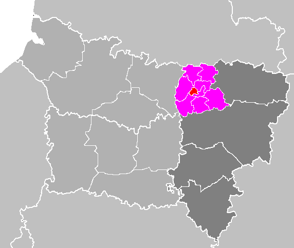 Maps of arrondissements and cantons of France